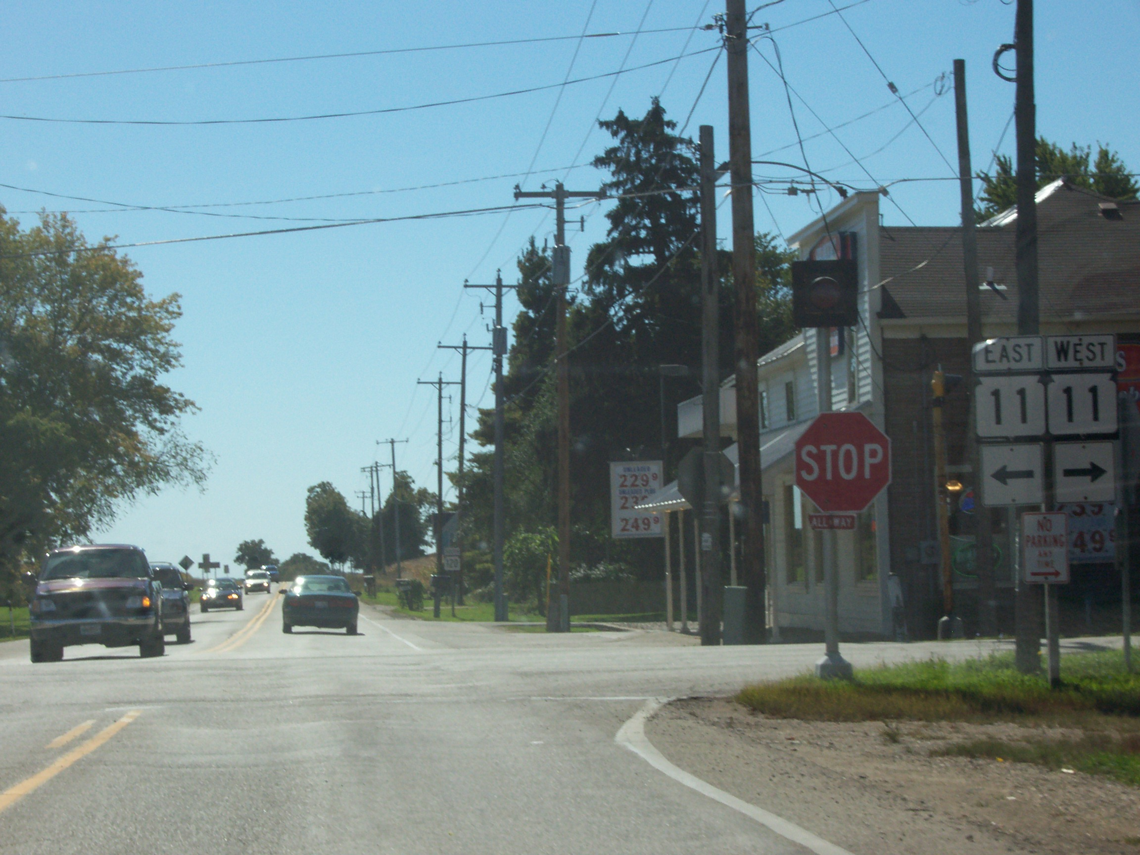 Looking south on Highway 120 (Wisconsin) at its intersection with Highway 11 (Wisconsin) in Spring Prairie, Wisconsin. This image was taken on October 1, 2006 by User:Royalbroil. Category:Images of Wisconsin highways